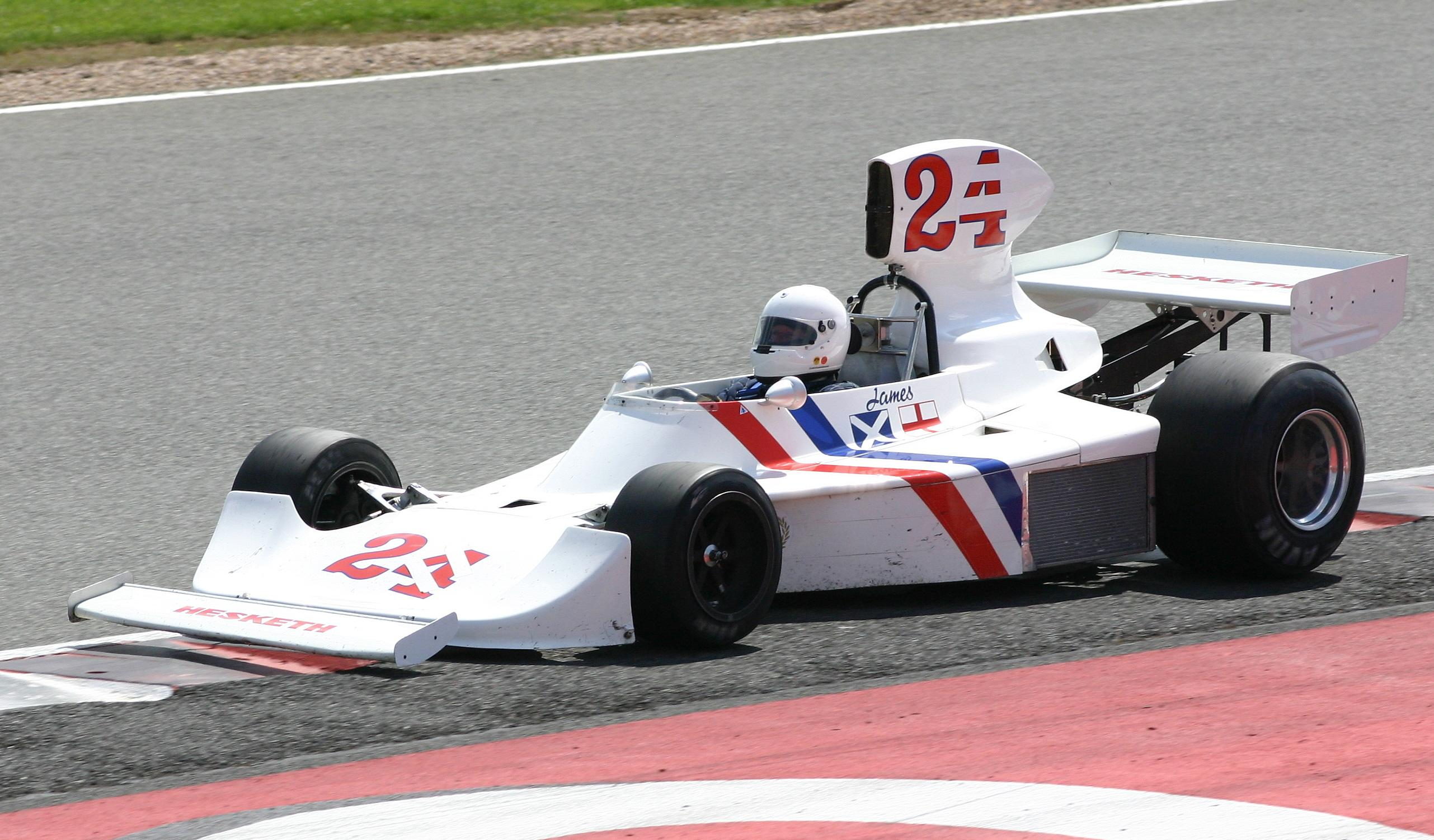 The Hesketh 308 at the 2008 Silverstone Classic race meeting.